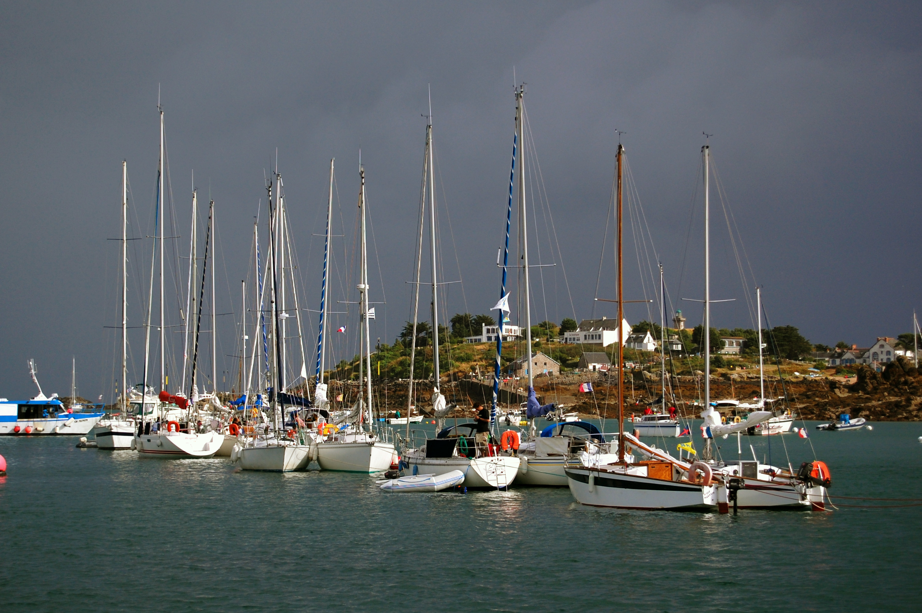 The mooring in the sound Chausey Island, France